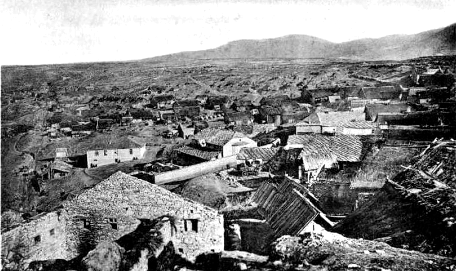 Old picture of Bešište